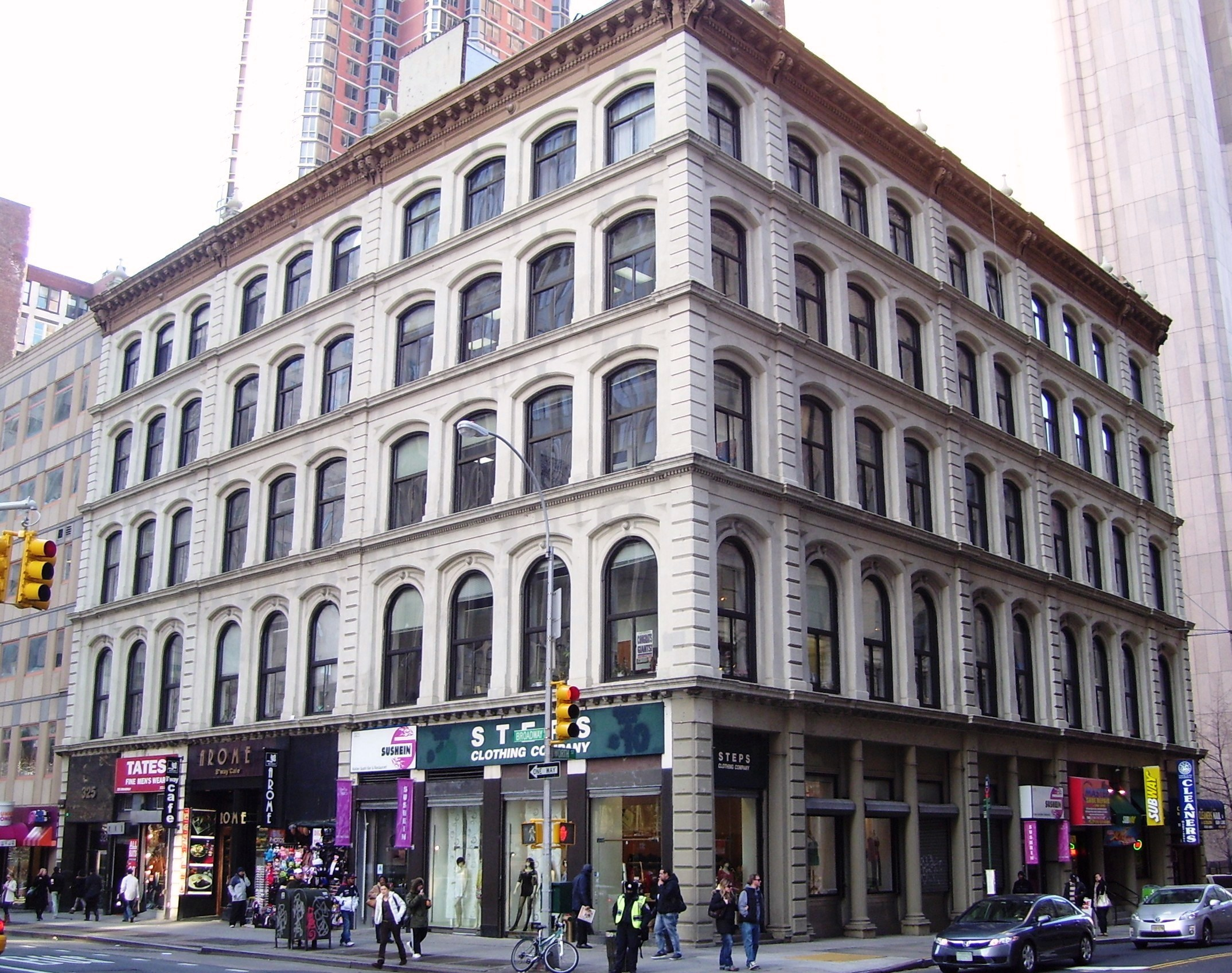 325-333 Broadway on the corner of Worth Street in the Tribeca neighborhood of Manhattan, New York City, was built in 1863-64 in the Italianate pallazzo style. Its tenants were connected to the dry-goods and textiles industries. It was designated a NYC landmark in 2002. (Source: Guide to NYC Landmarks (4th ed.))